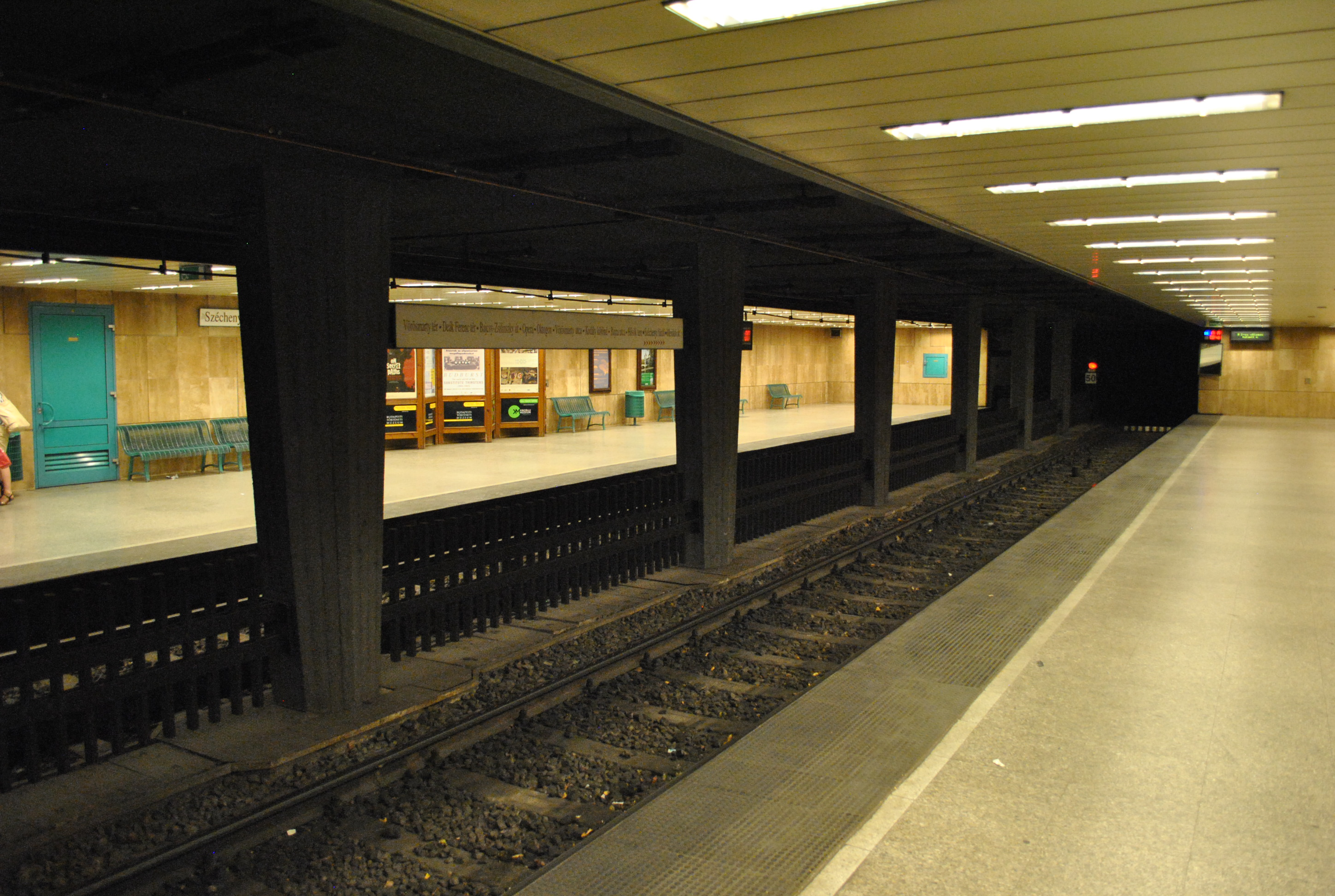 Inside the station Széchenyi fürdő, on Budapest Metro system